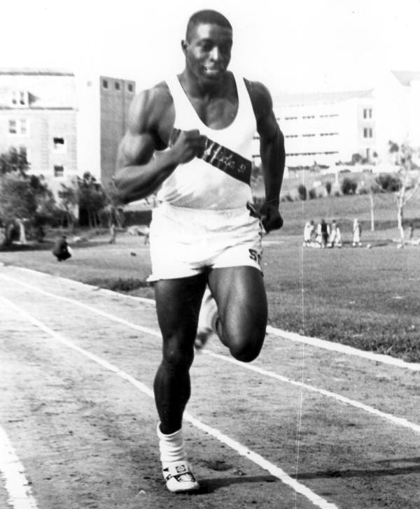 Local call number: RC02964 Title: FAMU athlete Robert Hayes practices running on the track: Tallahassee, Florida Date: March 15, 1962 Accompanying note: "Hayes Will Try for World Mark--Florida A & M University's rapid Robert Hayes, who unofficially tied the world mark for the 100-yard dash at 9.2 just a month ago at Miami, tunes up on the track here and will be gunning to lower the official 9.2 record held by Villanova's Frank Budd. Hayes, 19, and a sophomore, will be running Saturday, Mar. 17, on the same track at University of Miami, where he ran his 9.2 and officials there say the track will be even faster as the measured straightway has been groomed daily." Physical descrip: 1 photoprint - b&w - 10 x 8 in. Series Title: Reference collection Repository: State Library and Archives of Florida, 500 S. Bronough St., Tallahassee, FL 32399-0250 USA. Contact: 850.245.6700. Persistent URL: Visit Florida Memory to learn more about the history of college football in Florida. Visit Florida Memory to find resources for Black History Month and to learn about the contributions of African-Americans in Florida history.